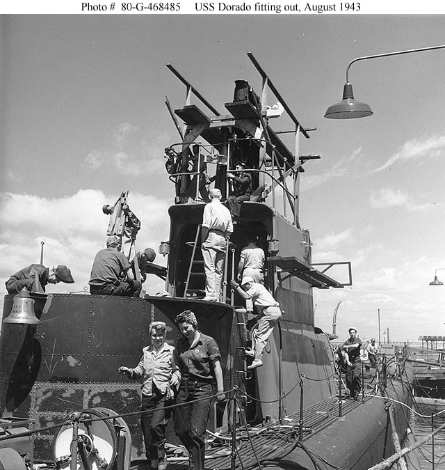 The construction of the USS Dorado (SS-248). Photograph taken from the Naval Historical Center. Public Domain.